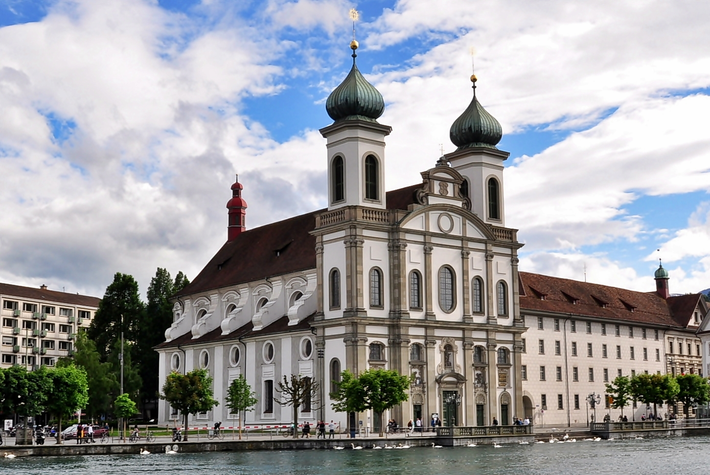 Jesuit Church, Lucerne, Switzerland